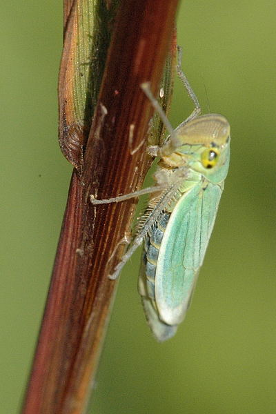 Picture taken in Commanster, Belgian High Ardennes . Species: Cicadella viridis female